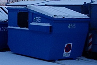 Frontloader-container Photo taken at Renoflex, Copenhagen, Denmark january 2005 Author: G®iffen